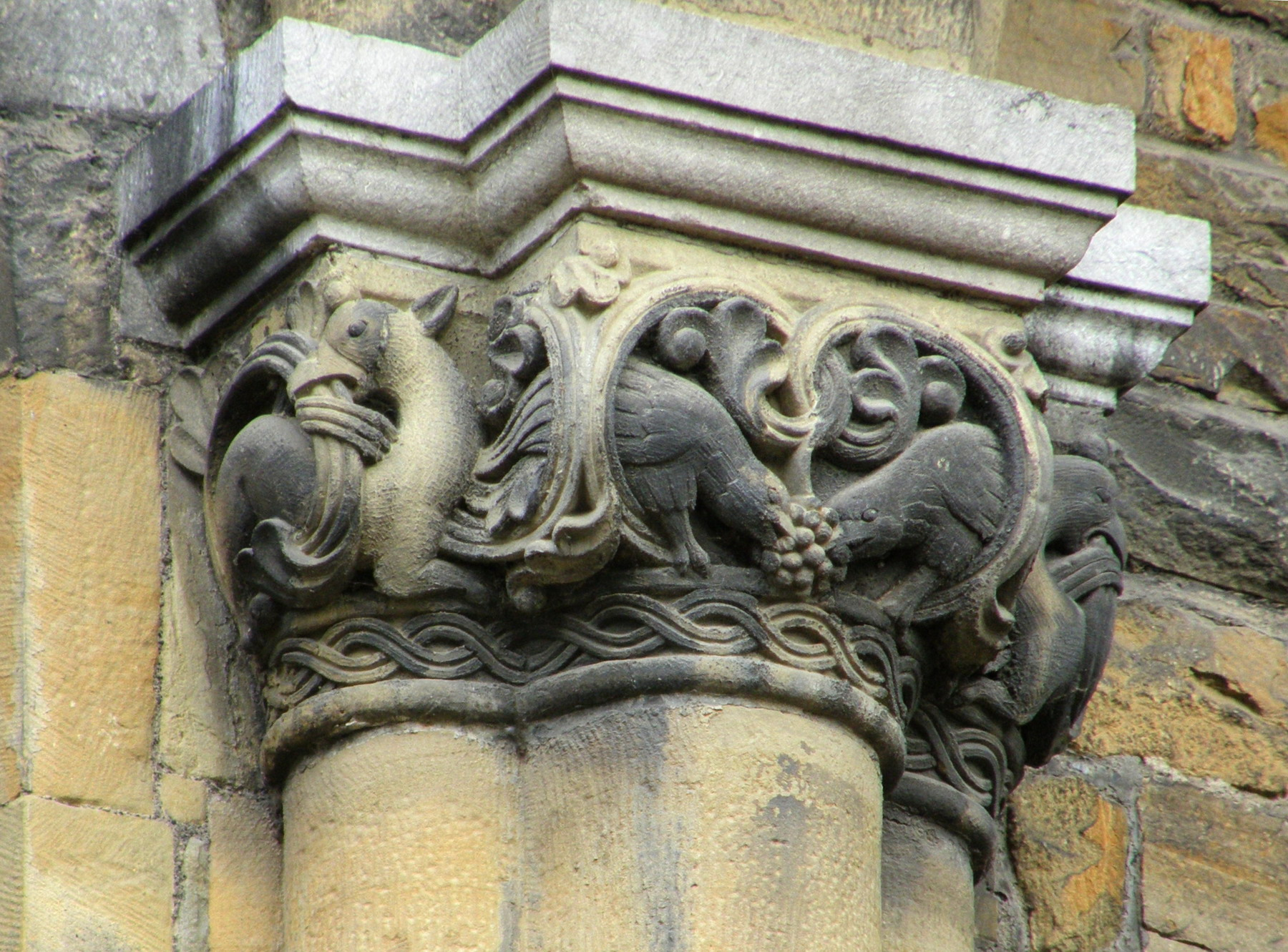 Basilica of Our Lady, Maastricht, the Netherlands. Romanesque capital at the exterior of the apse, depicting two birds pecking at grapes and sea creatures facing out of the capital.